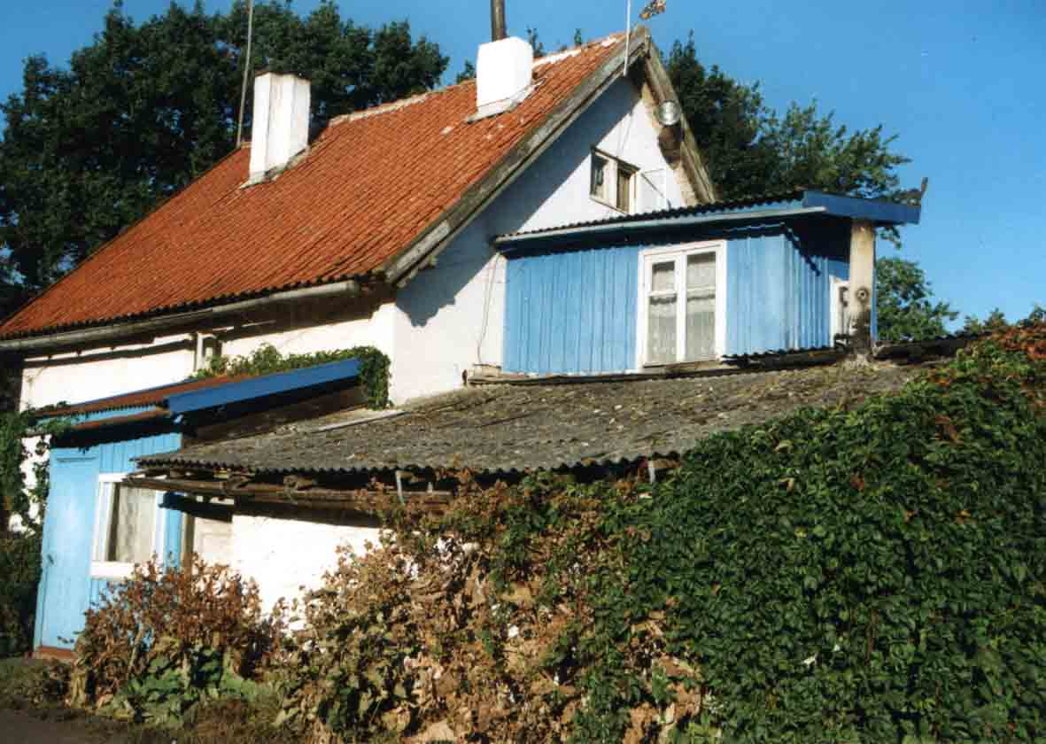 Former House of Thienemann in Rossitten (Rybachy) in Kaliningrad Oblast in Russia